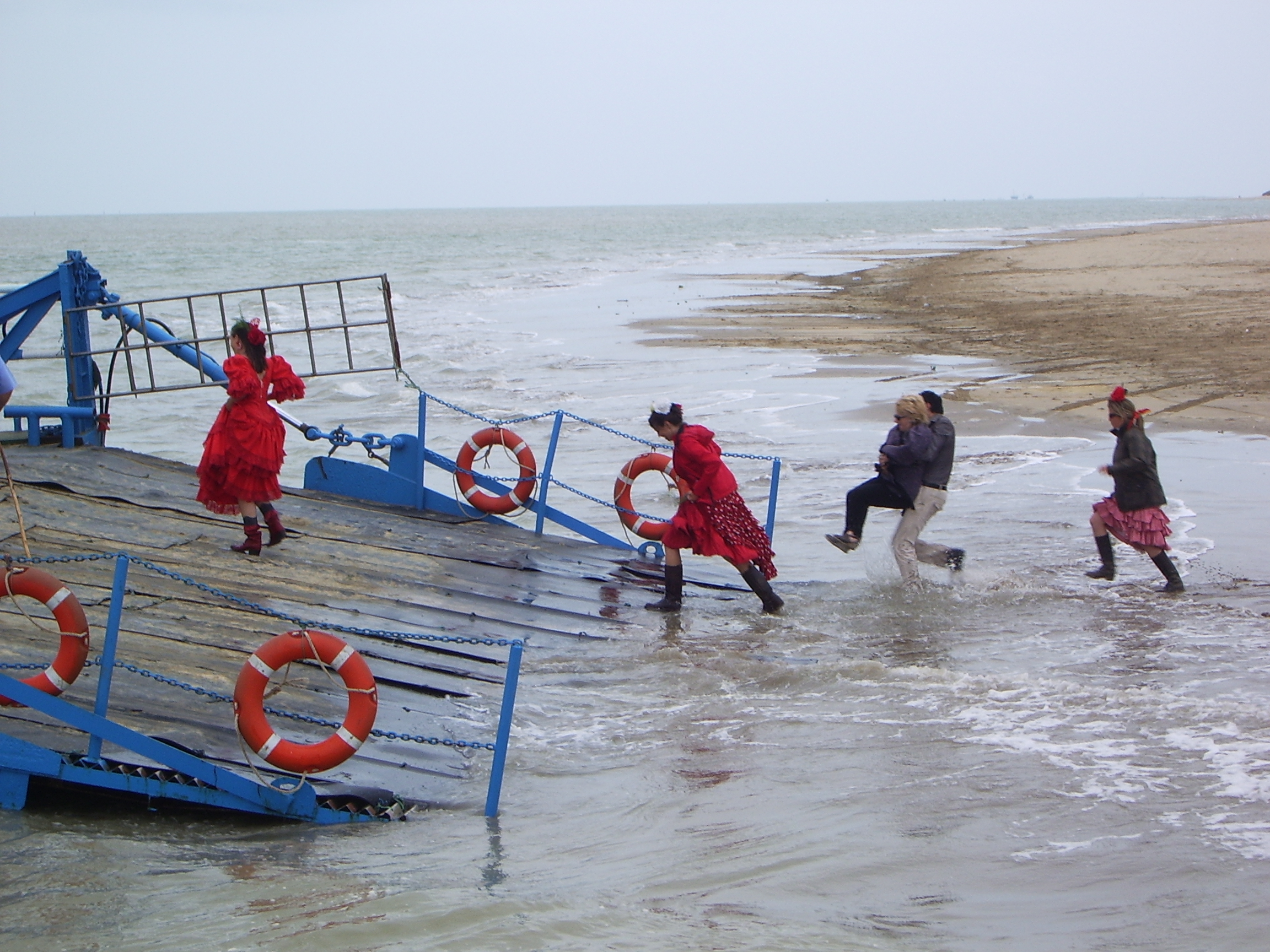 Embarking on the beach of the Coto de Doñana towards Sanlucar de Barrameda, on the way back from the pilgrimage of El Rocío, May 2009.